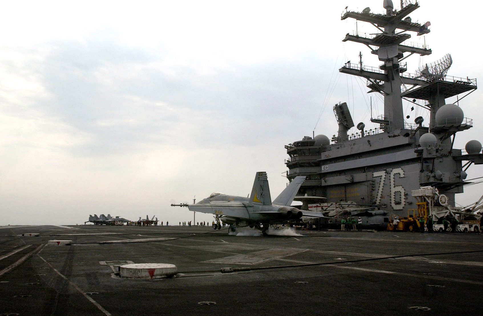 PACIFIC OCEAN (March 15, 2007) - Capt. Richard “Rhett” Butler, commander of Carrier Air Wing (CVW) 14, makes his 1000th carrier arrested landing aboard Nimitz-class aircraft carrier USS Ronald Reagan (CVN 76). Butler has been designated as a naval aviator for more than 21 years. Ronald Reagan Carrier Strike Group is underway in support of operations in the western Pacific. U.S. Navy photo by Mass Communication Specialist 2nd Class Aaron Burden (RELEASED)